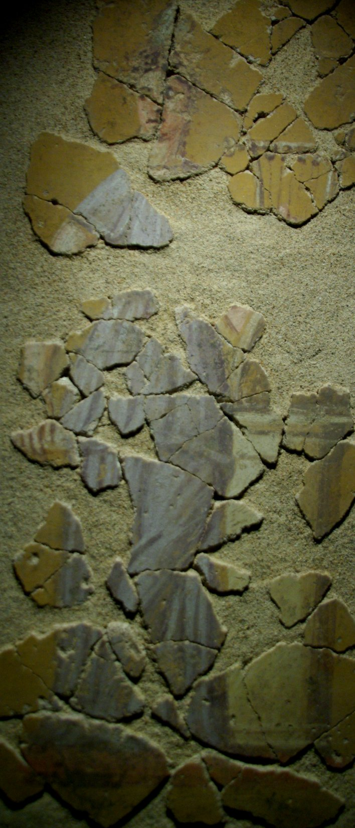 Muse Terpsichore, Roman house, Barcelona. Més informació.